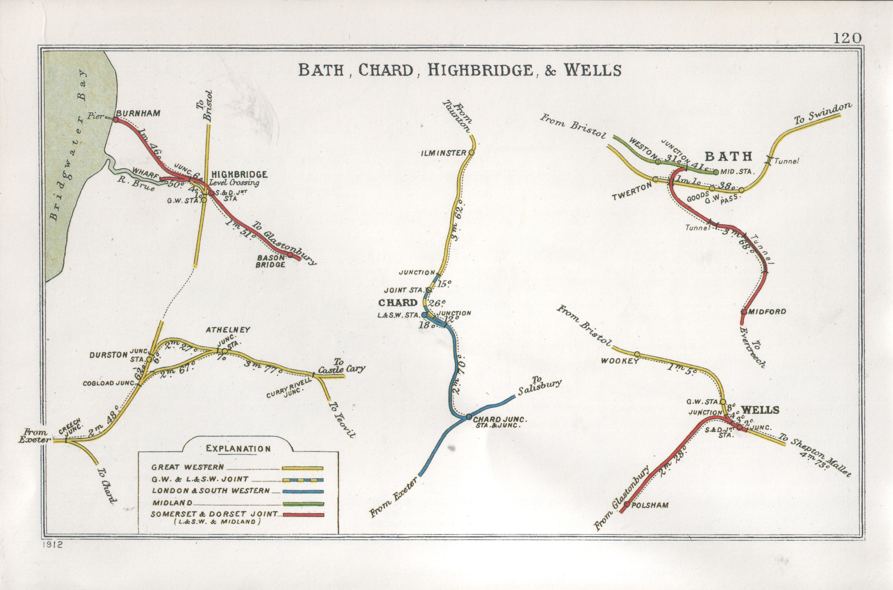 Railway Junctions in Bath, Chard, Highbridge & Wells pre grouping